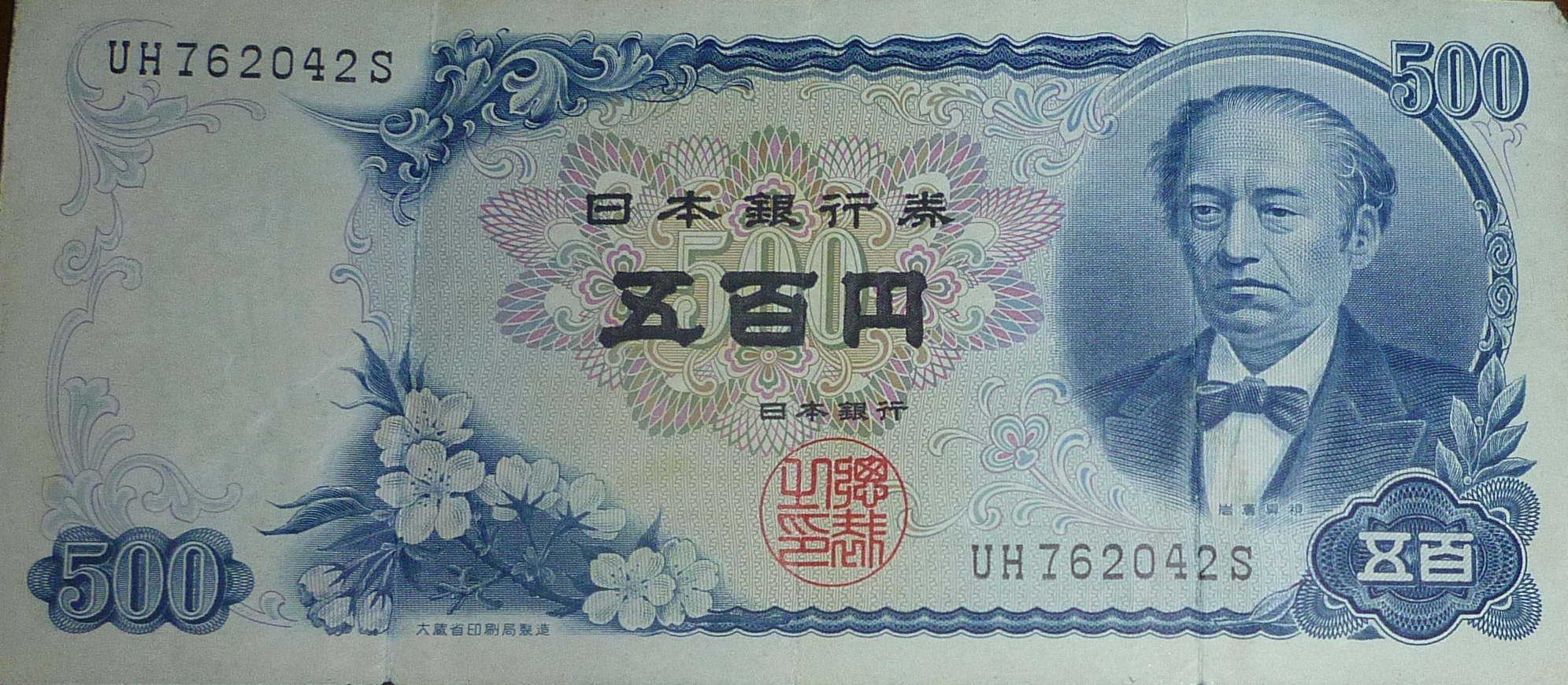 Japanese 500 yen note series C - front